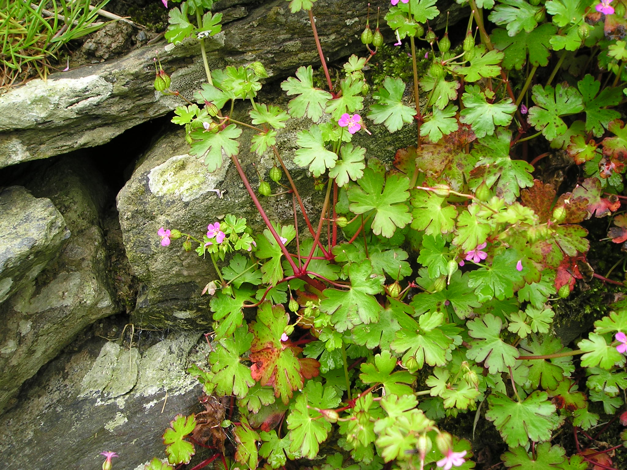 Geranium lucidum, shining cranesbill in Wales